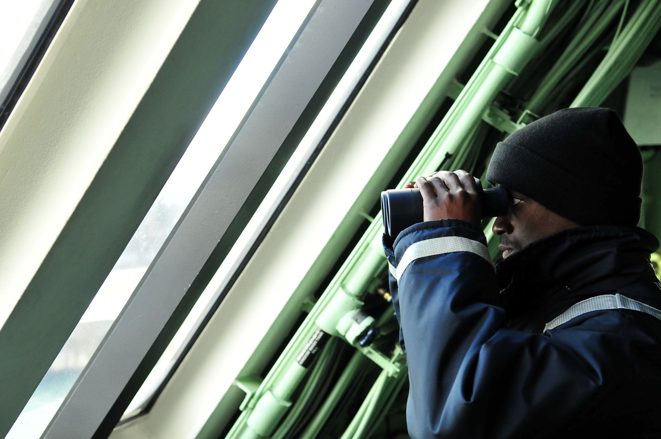 Electronics Technician 1st Class Hasani Thomas stands the lookout watch aboard the littoral combat ship USS Freedom (LCS 1) as the ship transits the Welland Canal. Freedom is the first of two littoral combat ships designed to operate in shallow water environments to counter threats in coastal regions and is in route to Norfolk, Va.